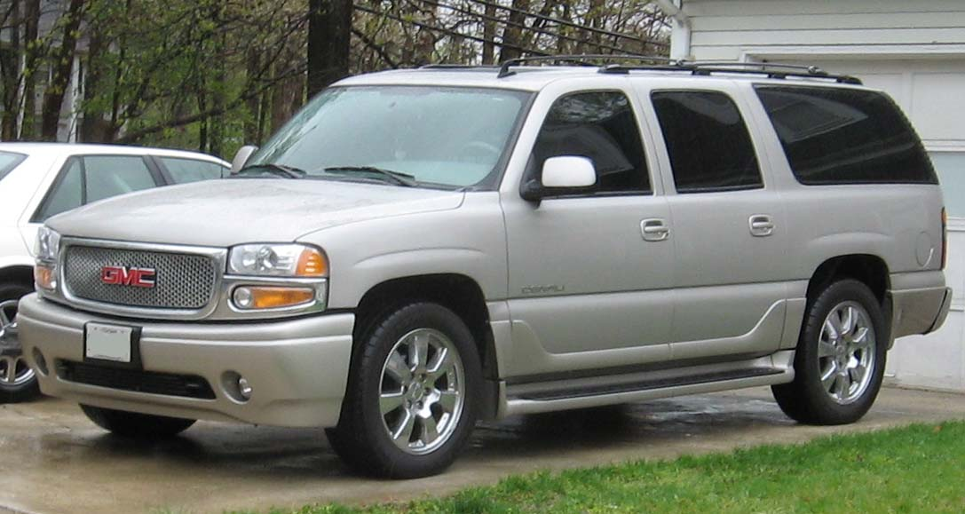 2001-2006 GMC Yukon XL Denali photographed in USA.